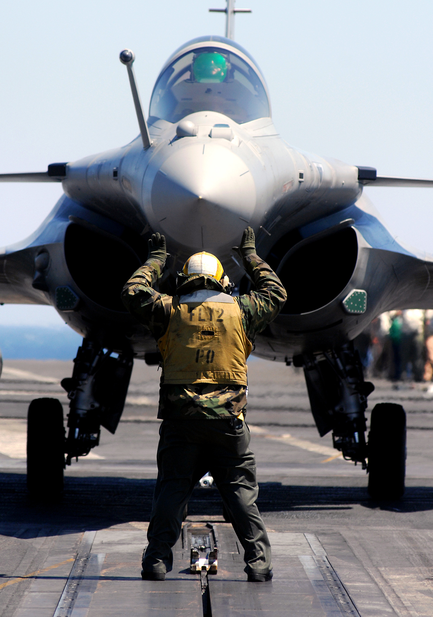 A plane director assigned to Air Department's V-1 division guides a French Navy Rafale jet to one of the catapults on the flight deck aboard the USS Harry S. Truman (CVN 75).